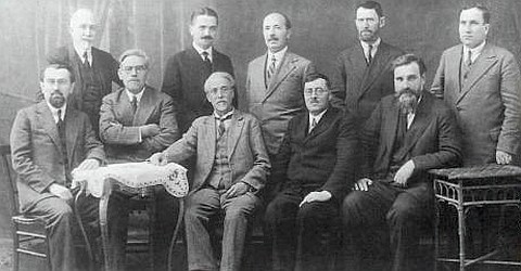 Parliamentary Group of Bulgarian Social Democratic Party (1923-1934) — left-to-right, sitting: Dimitar Neykov, Grigor Cheshmedjiev, Yanko Sakazov (chairman), Krastyo Pastuhov, and Kosta Lulchev; standing: Dosyo Negentzov, Sotir Yanev, Iliya Yanulov, Petar Anastasov, and Hristo Barakliev.